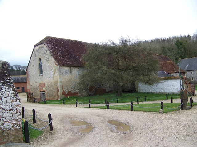 Medieval farm buildings, Rockbourne Part of the Medieval farm complex at Manor Farm.